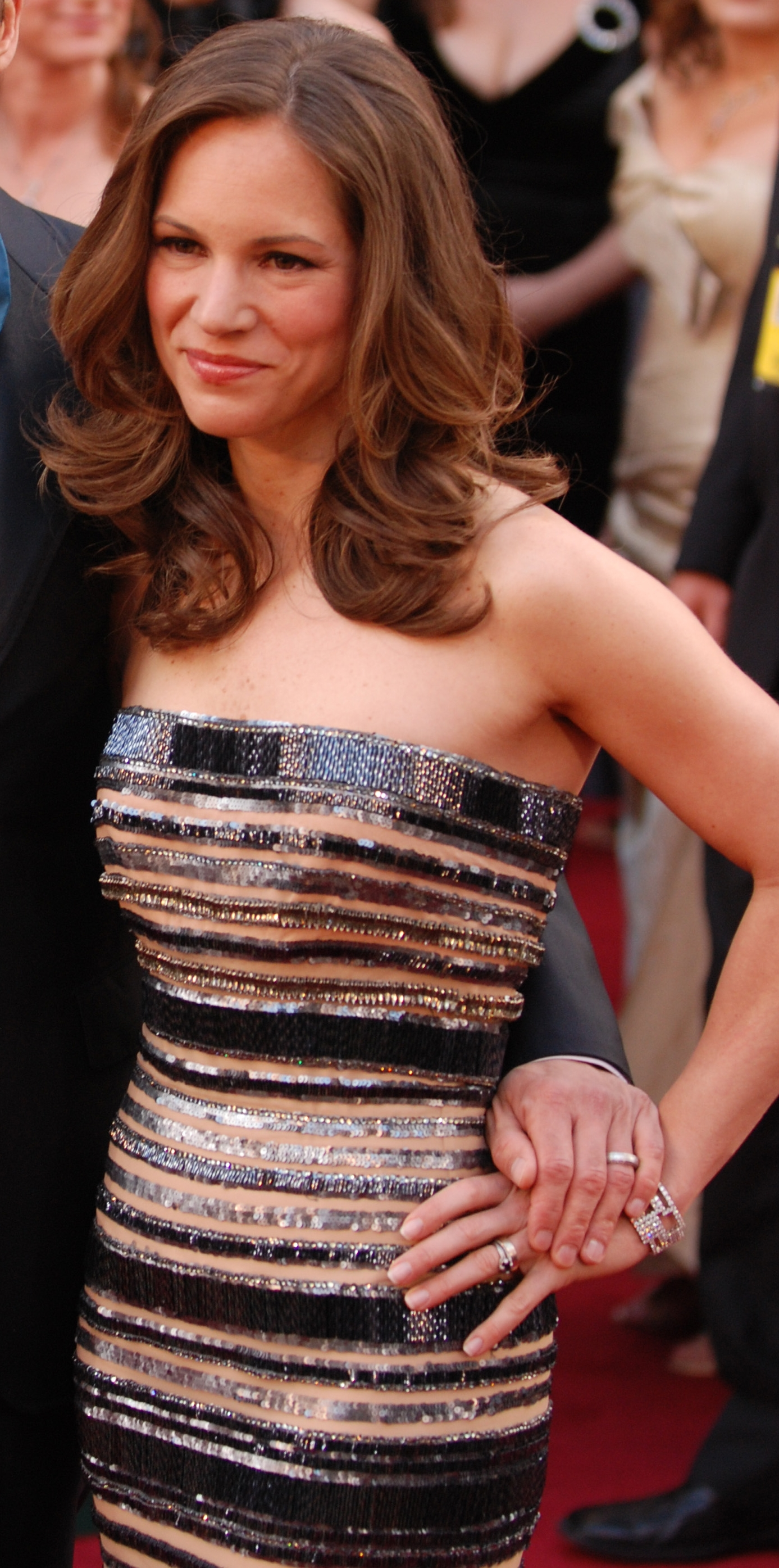 Susan Downey arrives at the 82nd Academy Awards, March 7, in Hollywood, Calif.